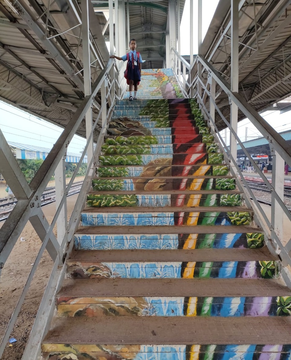 Bridge